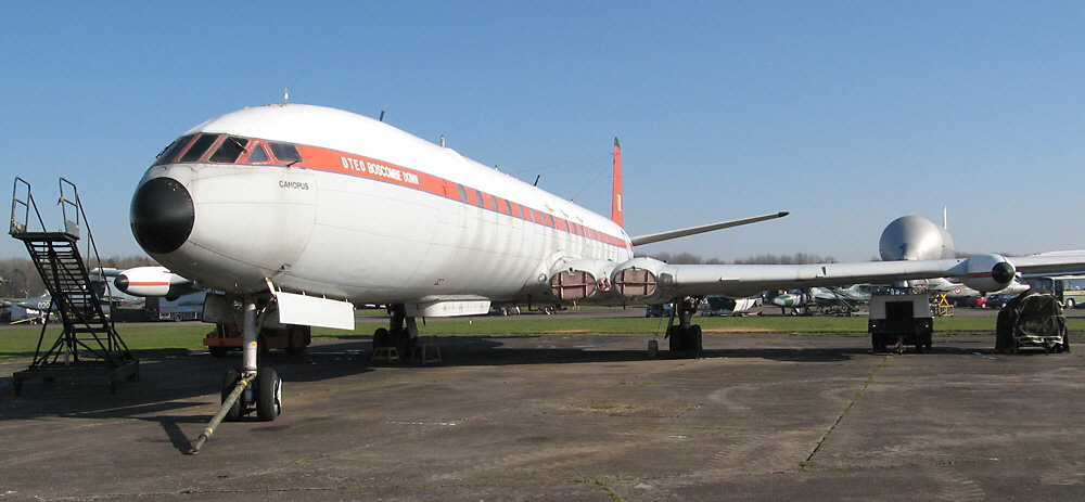 De Haviland Comet "Canopus" at the British Aviation Heritage Centre, Bruntingthorpe, Leicestershire.